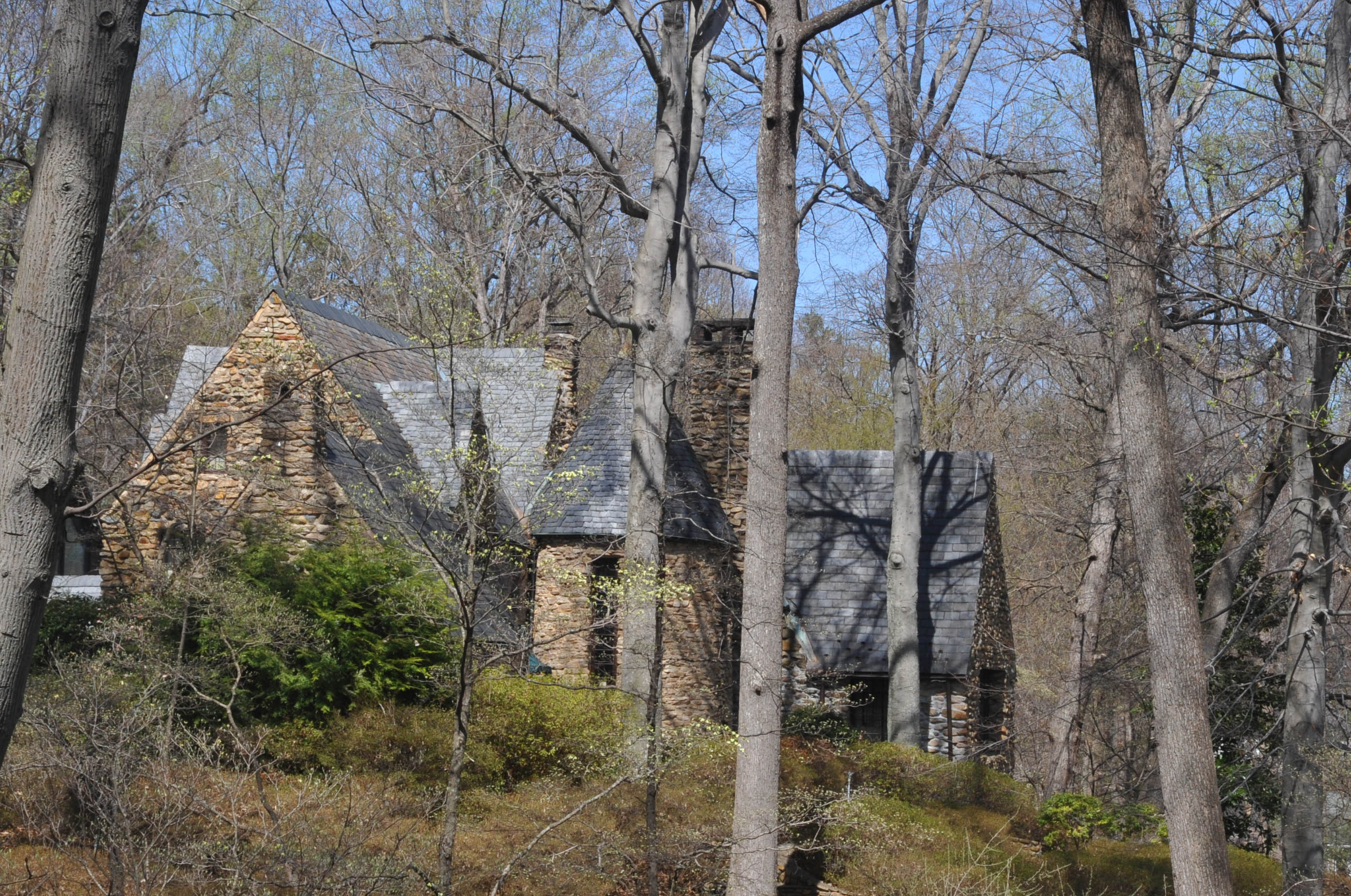 BUILT IN THE 1930’S. BLAND WAS AN ACCOMPLISHED MUSICIAN AND ORGANIST WHO ESTABLISHED THE BLAND PIANO COMPANY. HIS HOME, OFTEN CALLED THE CASTLE, IS CHATEAUESQUE AND OVERLOOKS A DEEP RAVINE AND IS DENSELY SURROUNDED BY TREES